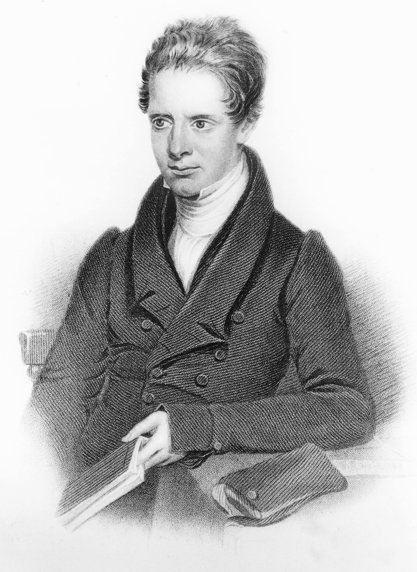 Samuel Dyer (台約爾) (20 February 1804 – 24 October 1843), a British Protestant Christian missionary to China in the Congregationalist tradition, who worked among the Chinese in Malaysia. He arrived in Penang in 1827. Dyer, his wife Maria, and their family lived in Malacca and then finally in Singapore. He was known as a typographer for creating a steel typeface of Chinese characters for printing to replace traditional wood blocks.